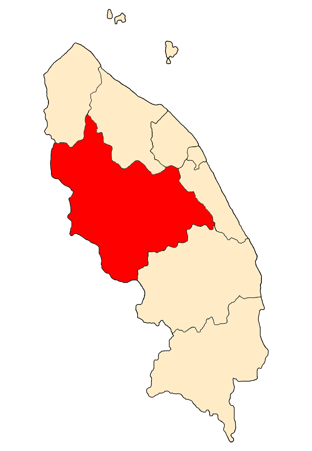 Location of Hulu Terengganu district, Terengganu, MALAYSIA